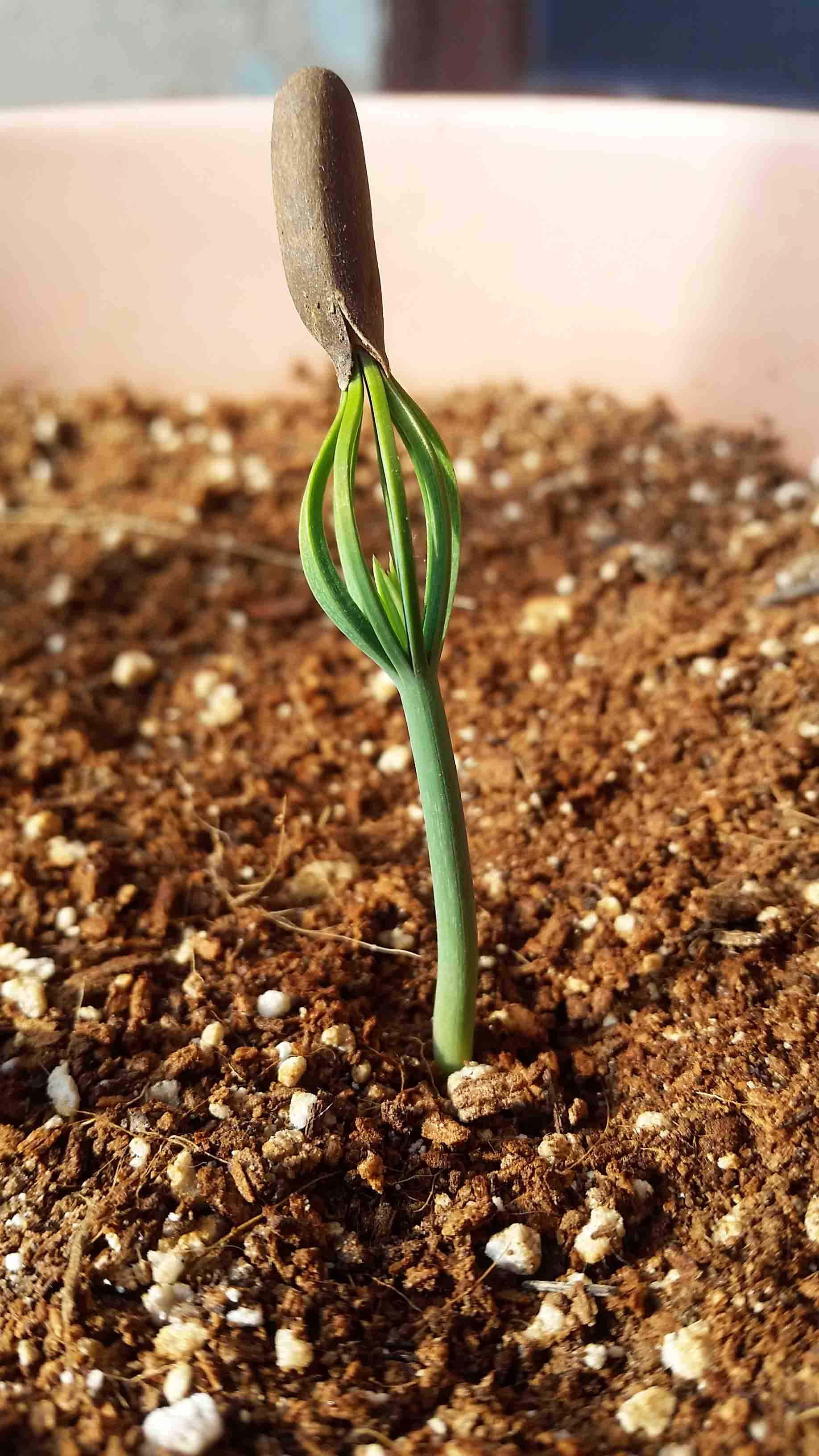 Pinus gerardiana seedling